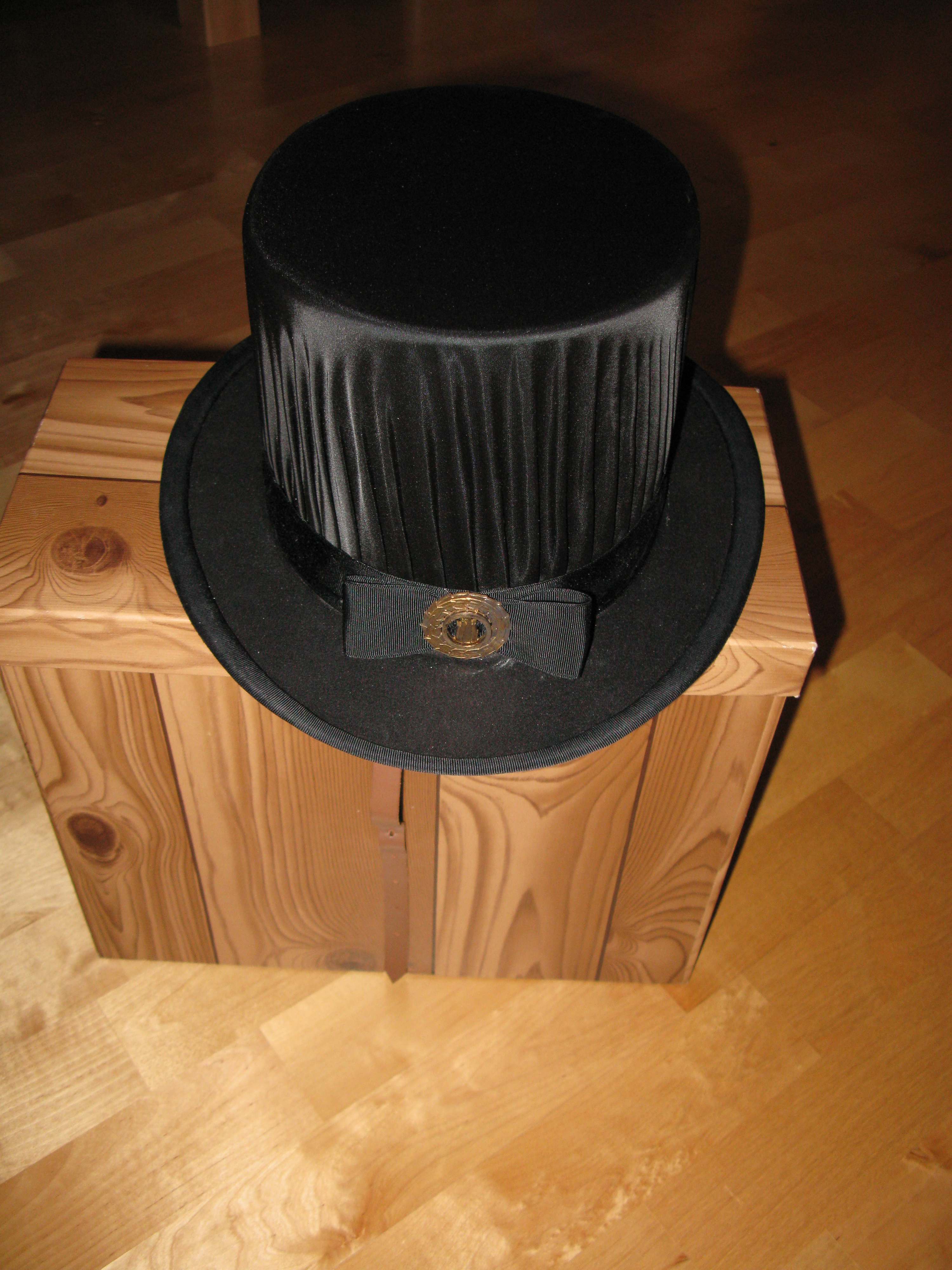 The hat of the Doctor of Technology, University of Oulu, Finland. The hat is always worn with white tie.